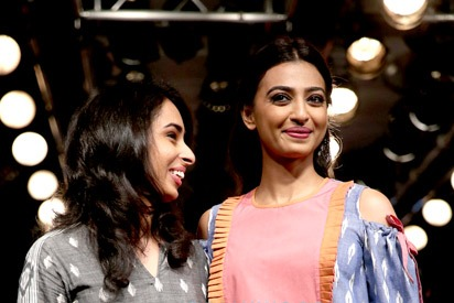 Radhika Apte walks the ramp for Meraki Project at LFW 2016